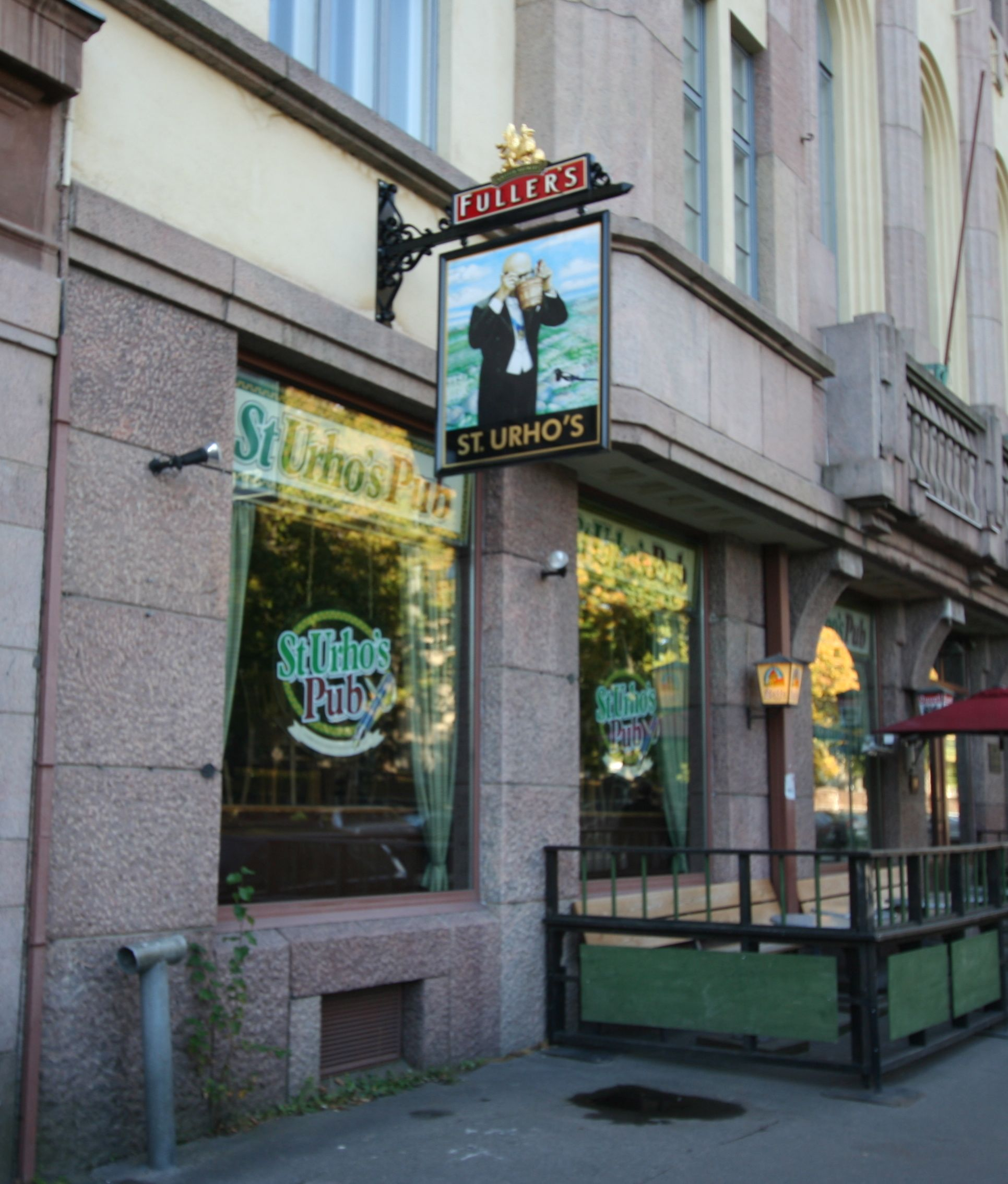 cropped image of Urho's pub front